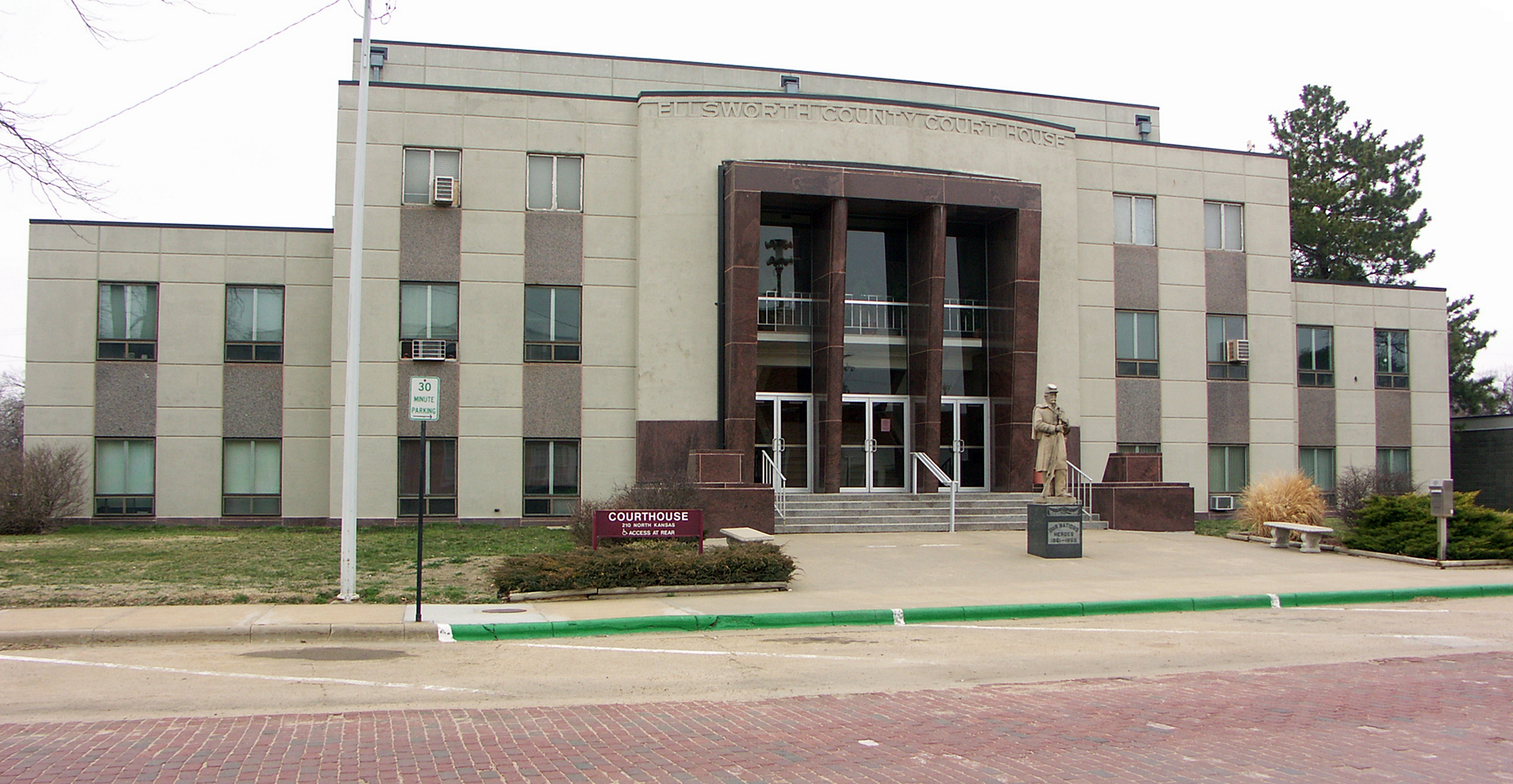 Ellsworth County Court House, Ellsworth.